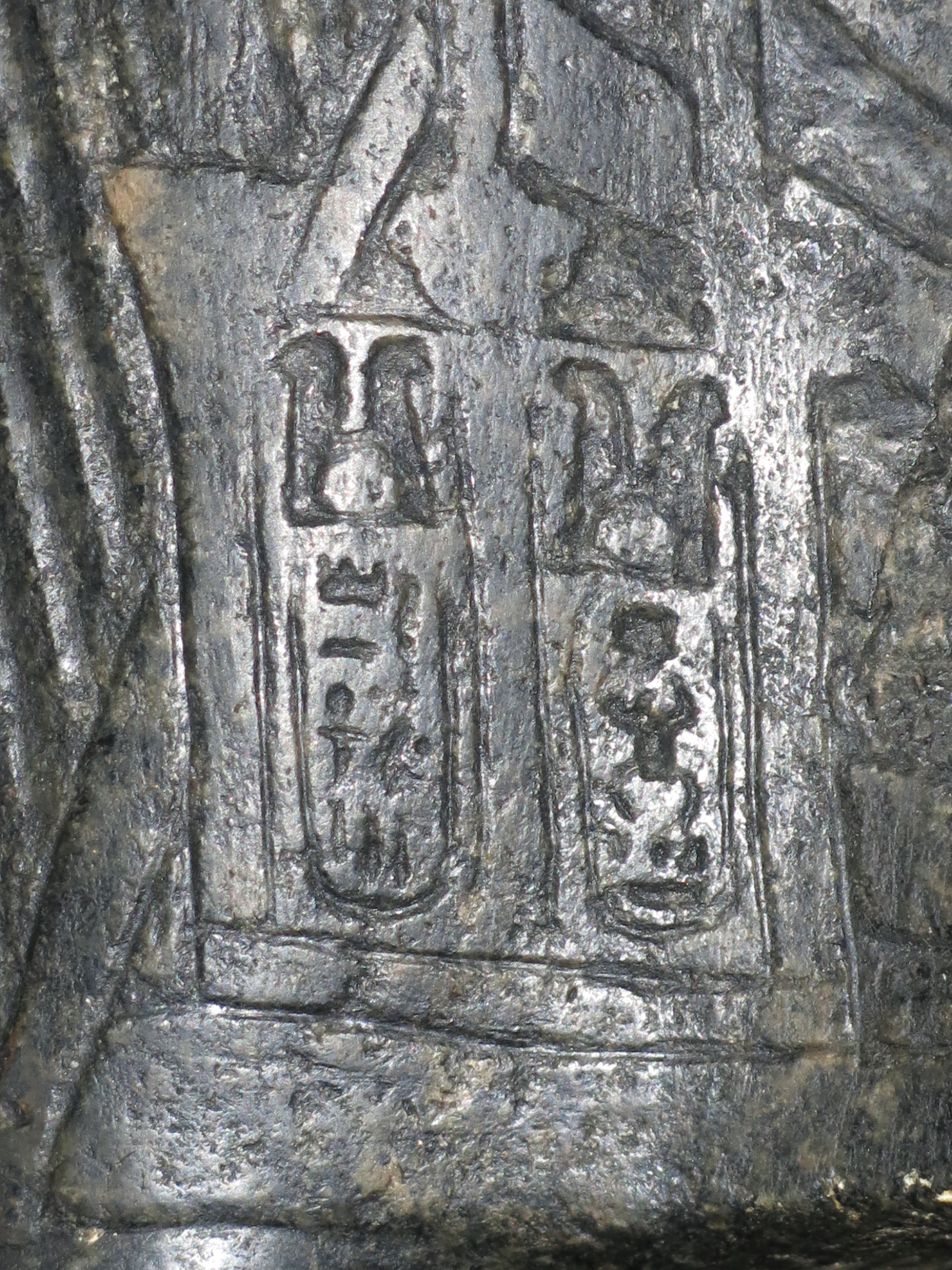 Cartouche of Tutankhamun on the statue of the god Amon protecting Tutankhamun. On the right side of the bottom of the Tutankhamun's loincloth. Diorite. 1336-1327 BC. Louvre museum (Paris, France).